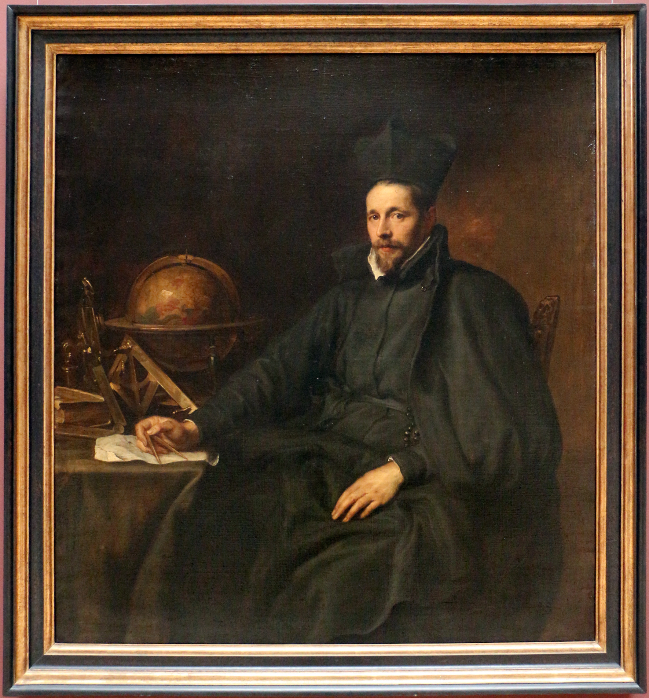 paintings in the Royal Museums of Fine Arts of Belgium